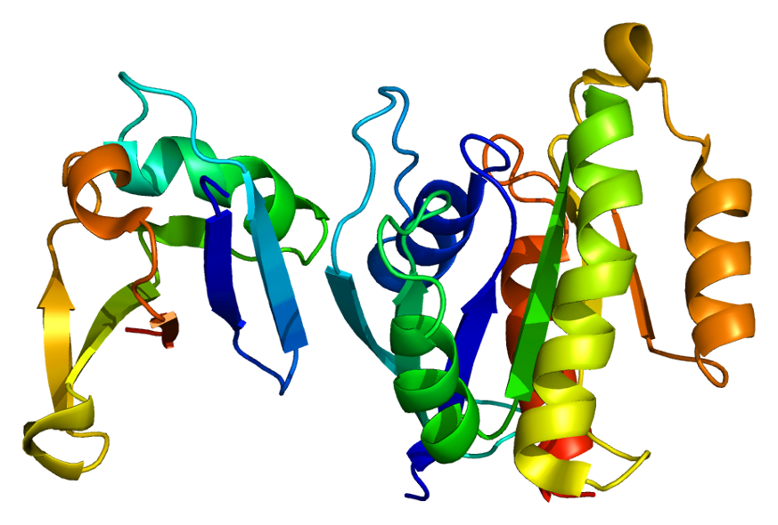 Structure of the RAF1 protein. Based on PyMOL rendering of PDB 1c1y.